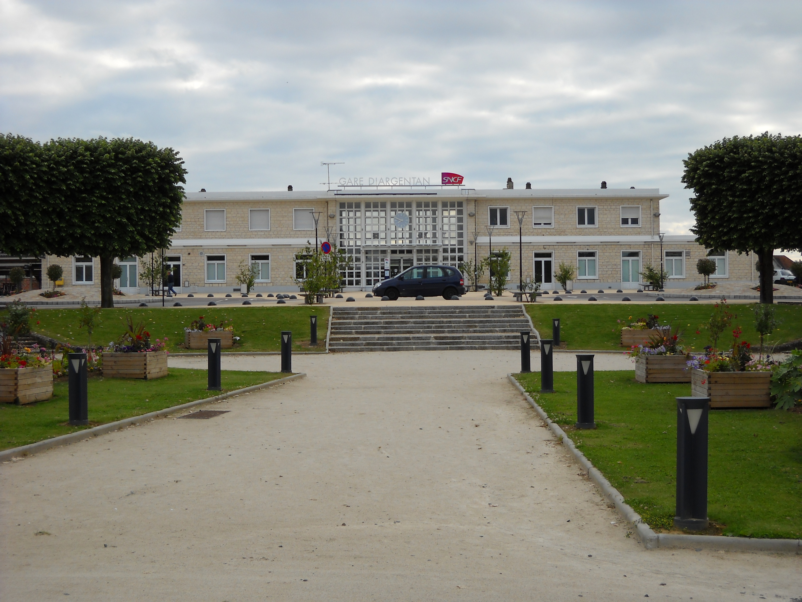 The train station of Argentan, Orne, France.